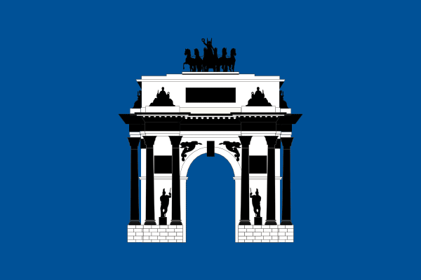 West district in Moscow, flag